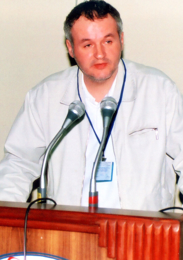 Polish author, also journalist (foreign correspondent), traveler, composer and lyricist.